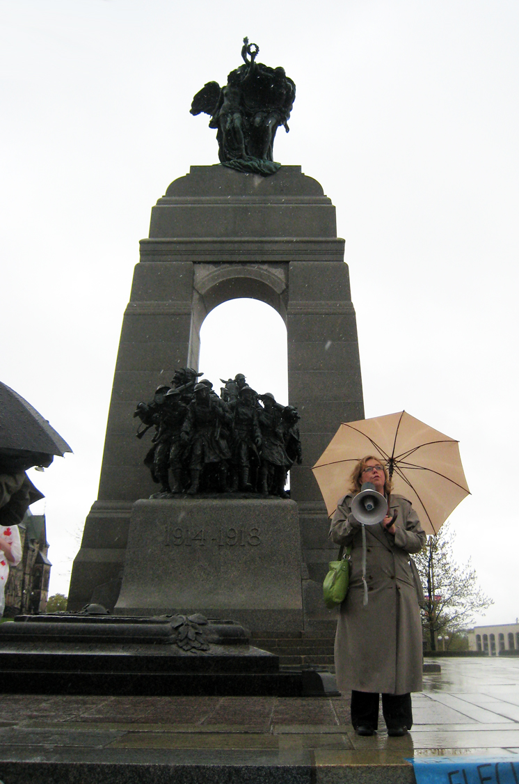 Elizabeth May speaking at National Day of Action for Electoral Reform rally in Ottawa.